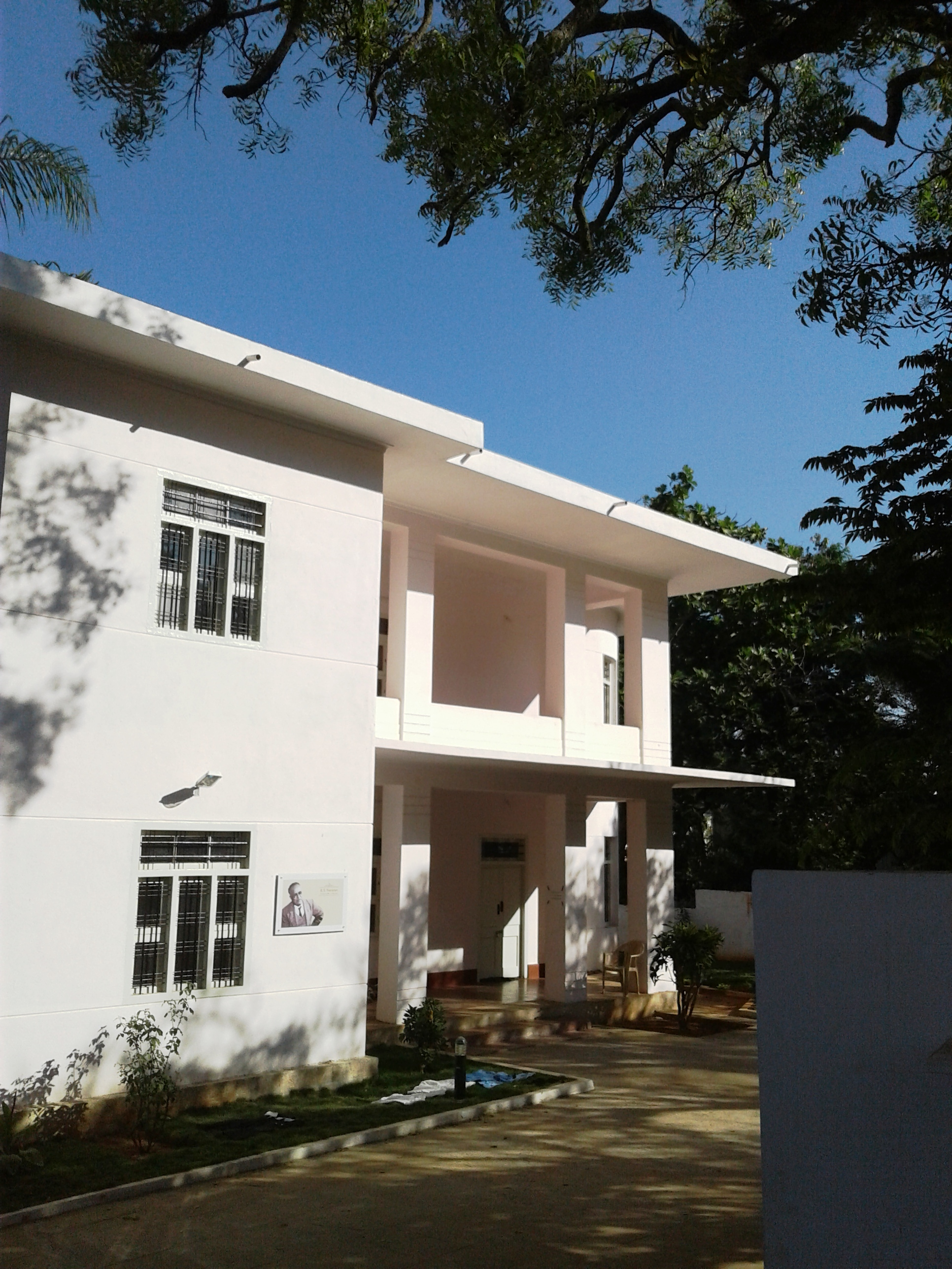 Timing. 10.00 am to 5.00 pm everyday. Tuesday Holiday. Free Entrance. Location near All India Radio, Yadavagiri, Mysore, India